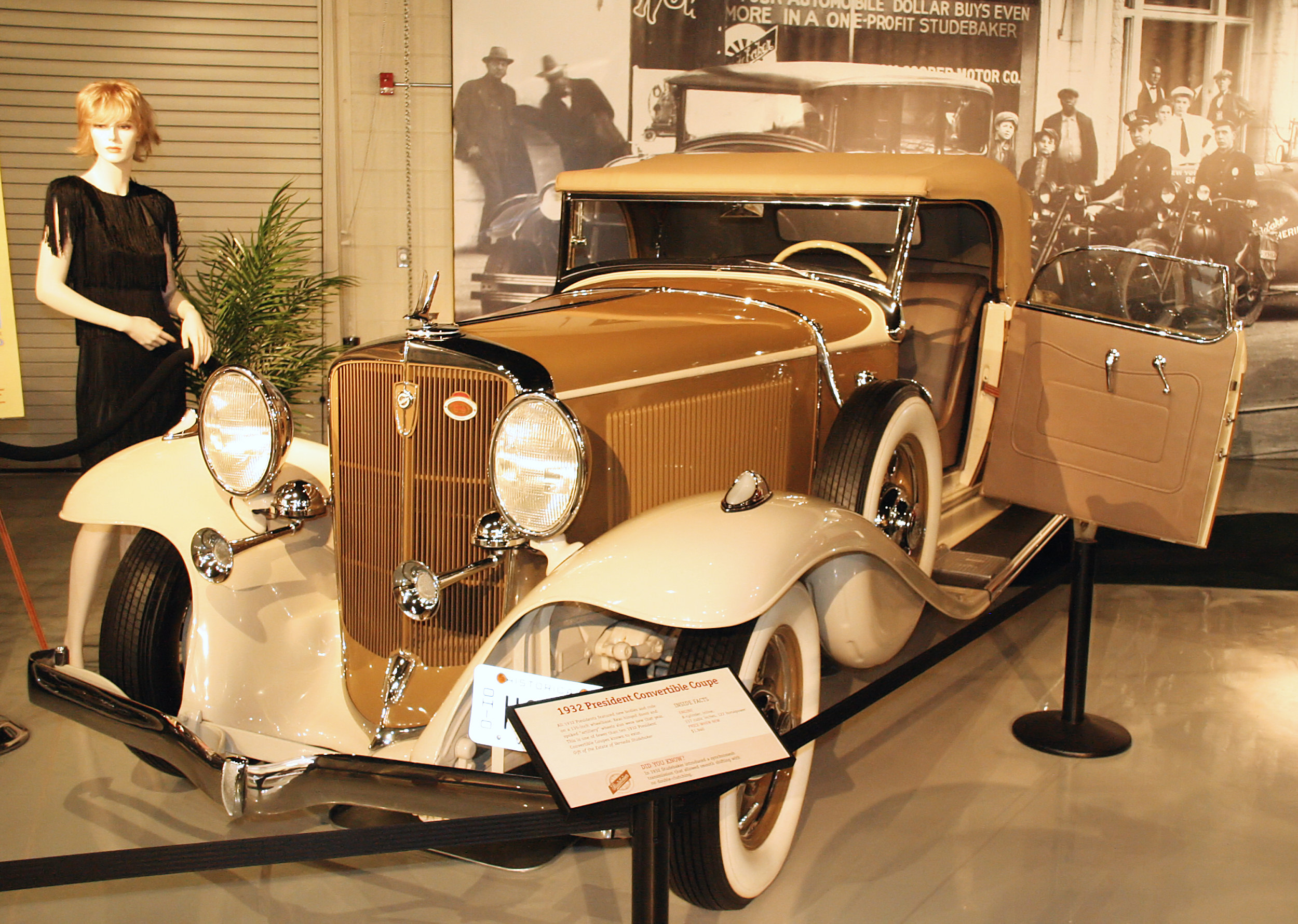 1932 Studebaker President, part of the Studebaker National Museum collection in South Bend, Indiana. The exhibit plaque says: 1932 President Convertible Coupe All 1932 Presidents featured new bodies and rode on a 135-inch wheelbase. Rear-hinged doors and spoked "artillery" wheels also were new that year. This is one of fewer than ten 1932 President Convertible Coupes known to exist. Gift of the Estate of Verneda Studebaker Inside facts Engine 8-cylinder, inline, 337 cubic inches, 122 horsepower Price when new $1,940 Did you know? In 1932 Studebaker introduced a synchronized transmission that allowed smooth shifting with no double-clutching.